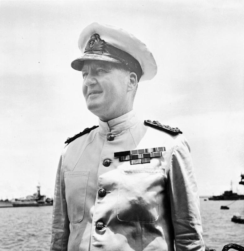 IWM caption : Admiral Sir Bruce Fraser, Commander in Chief of the Royal Navy Home Fleet May 1943 to June 1944. In 1944 he became Commander in Chief of the British Pacific Fleet. Photograph taken on board HMS DUKE OF YORK at Guam.